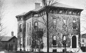 The home of 24th President of the U.S. Benjamin Harrison, photograph owned by the National Park Service and displayed on NPS website located here: National Park Service - The Presidents (Benjamin Harrison Home)